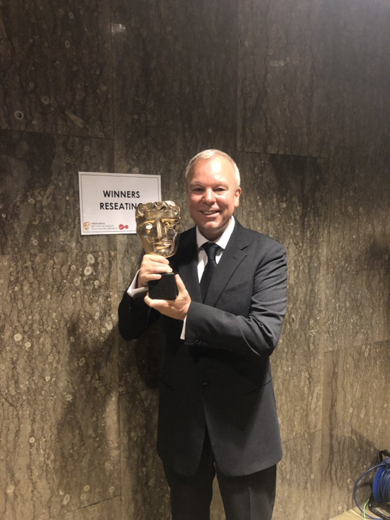 2019 Bafta Win